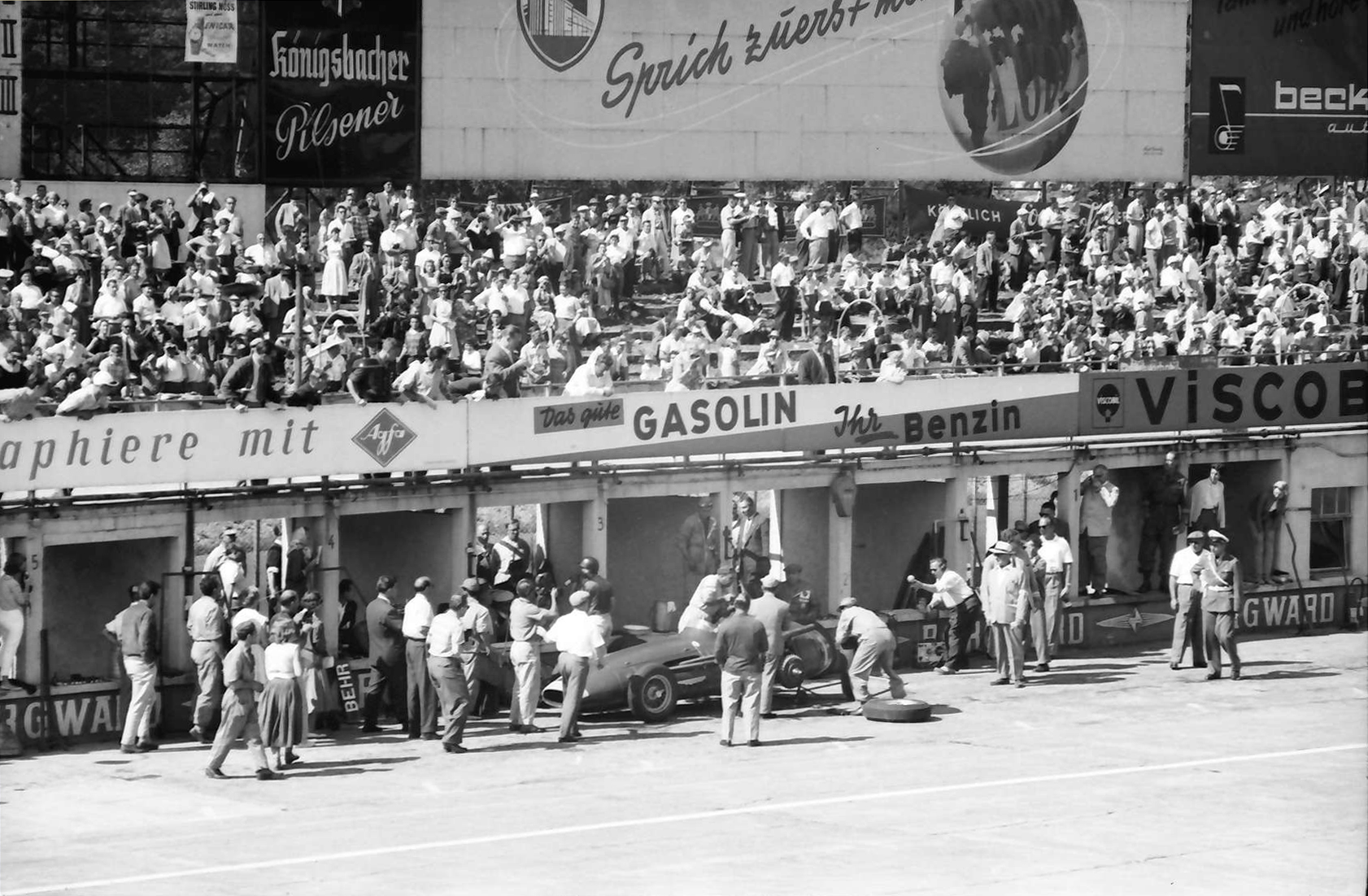 Race leader Juan Manuel Fangio stops for fuel and fresh tyres, during the 1957 German Grand Prix at the Nürburgring, West Germany. Fangio himself can be seen out of the car, wearing the dark helmet and taking a drink at the pit counter.